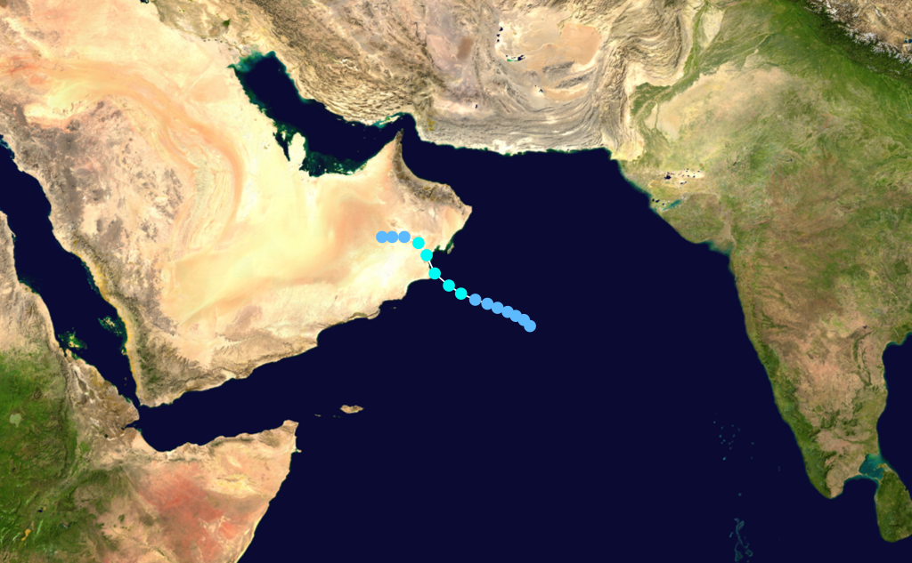 Cyclone 02A 1996 track. Uses the color scheme from the Saffir-Simpson Hurricane Scale.